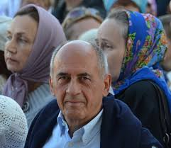 One of the honorary doctors of YSMU